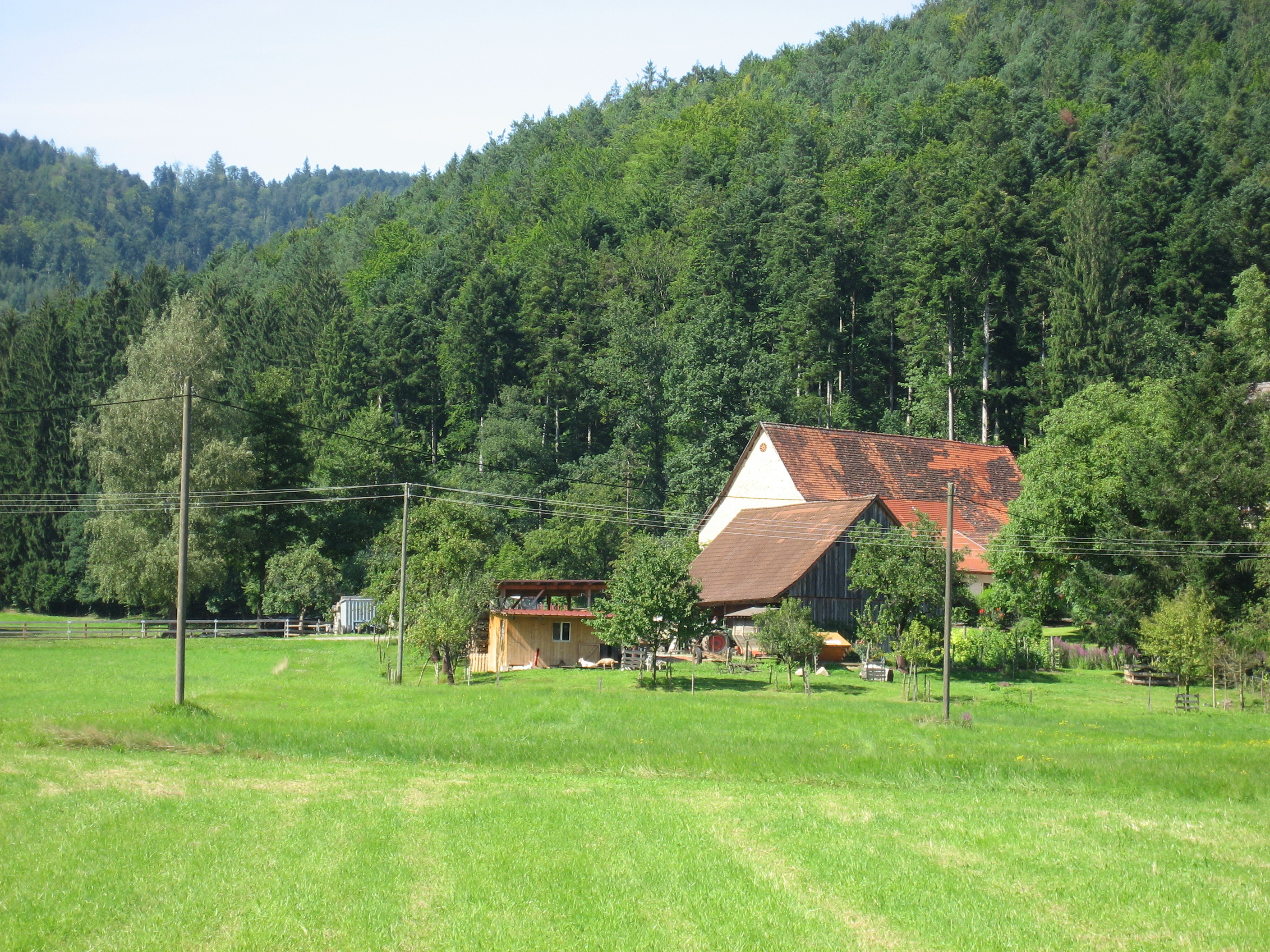 Meaows and forests at Wittental, part of the municipality of Stegen in the Black Forest, Germany